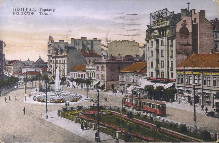 Terazije in Beograd, 1934 postcard